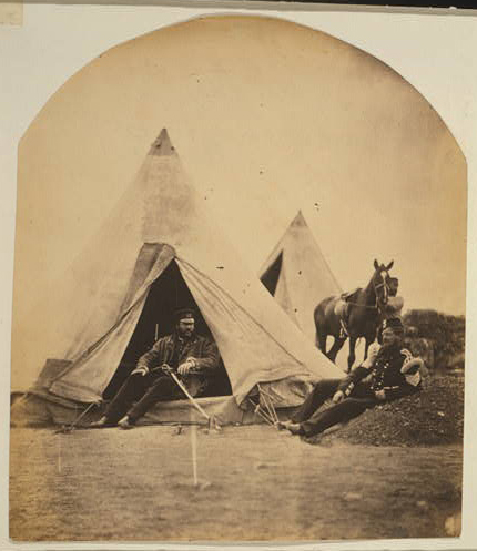 An officer and non-commissioned officer of the 57th regiment, reclining in front of a tent, during the regiment's time of service in the Crimean War. A servant and a horse are visible in the background. Cropped from original to remove excess border.